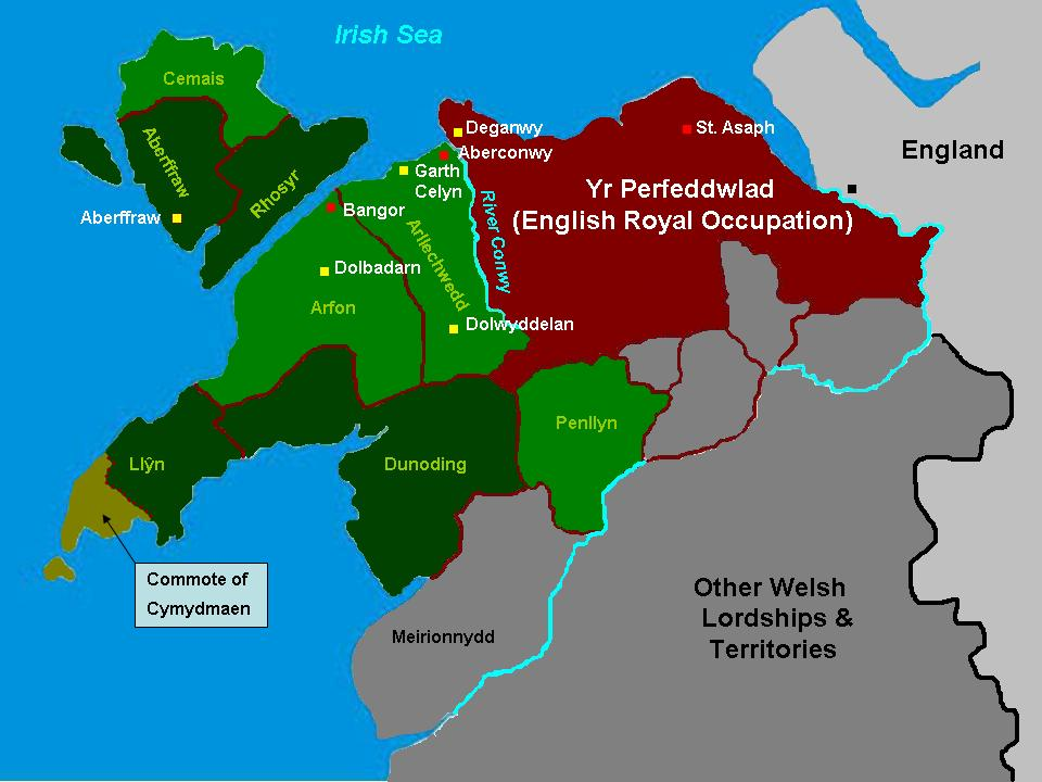 The situation in Gwynedd following the division of 1247 on map of the cantrefi, principal forts and political centres of Gwynedd at the kingdom's maximum extent, based on the historic borders of "between Dyfi and Dee". Map based on freeware outline from . I have used the maps found in J.Beverley Smith's "Llywelyn ap Gruffudd" (1998) as a visual guide. It has taken me days.